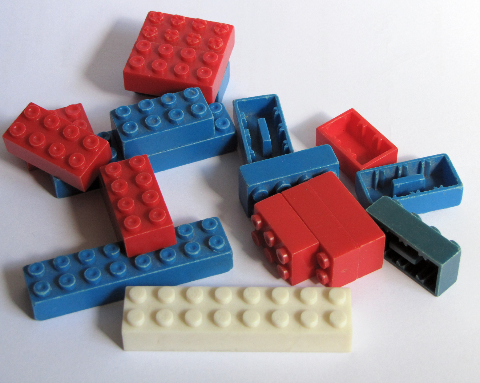 Formo-Stones from GDR, wiht a with PEBE-Stone